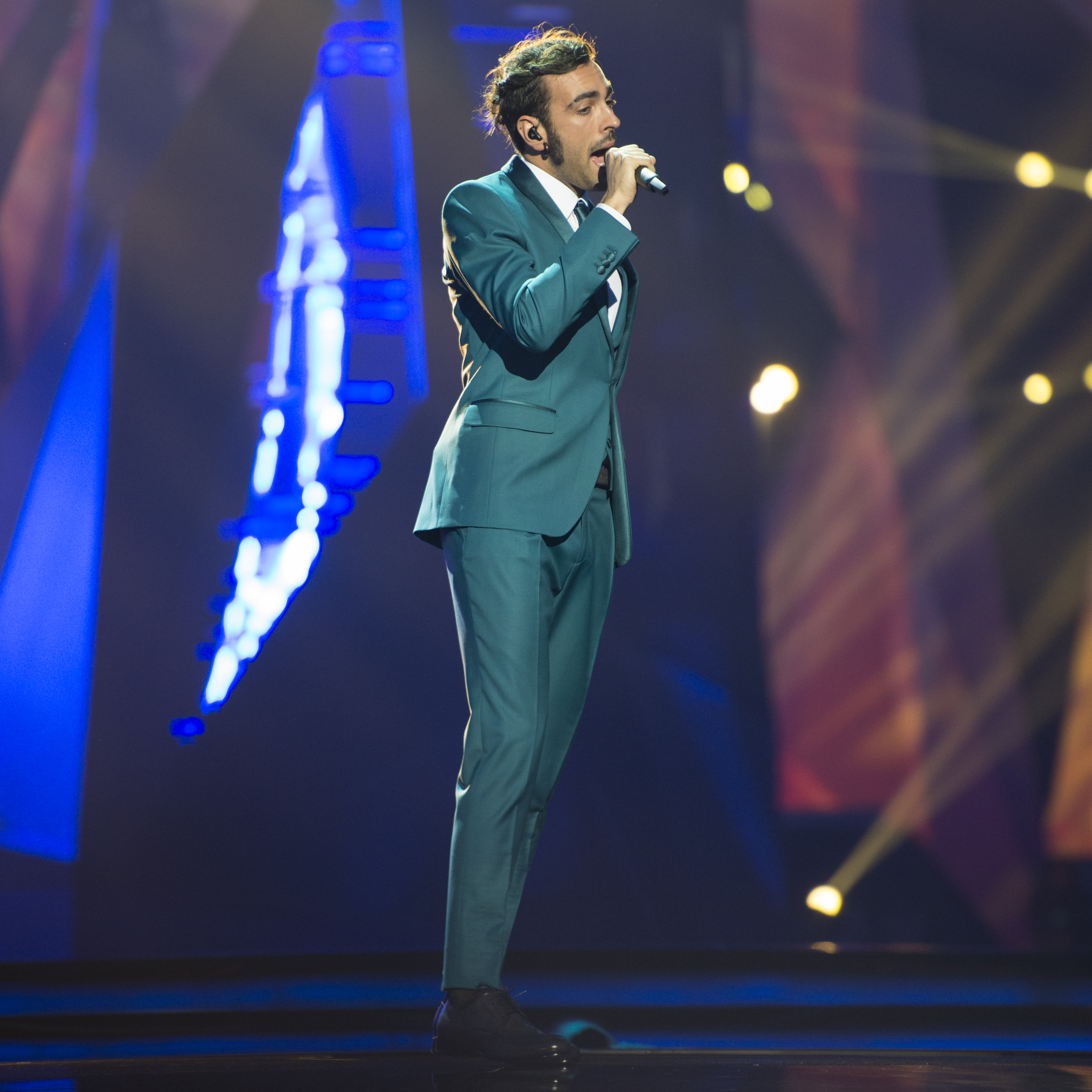 Marco Mengoni representing Italy with the song "L'essenziale" during the first dress rehearsal of the final of the Eurovision Song Contest 2013 in Malmö. (Help translate this text)